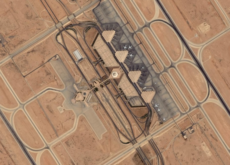 King Khalid International Airport, orthorectified satellite image